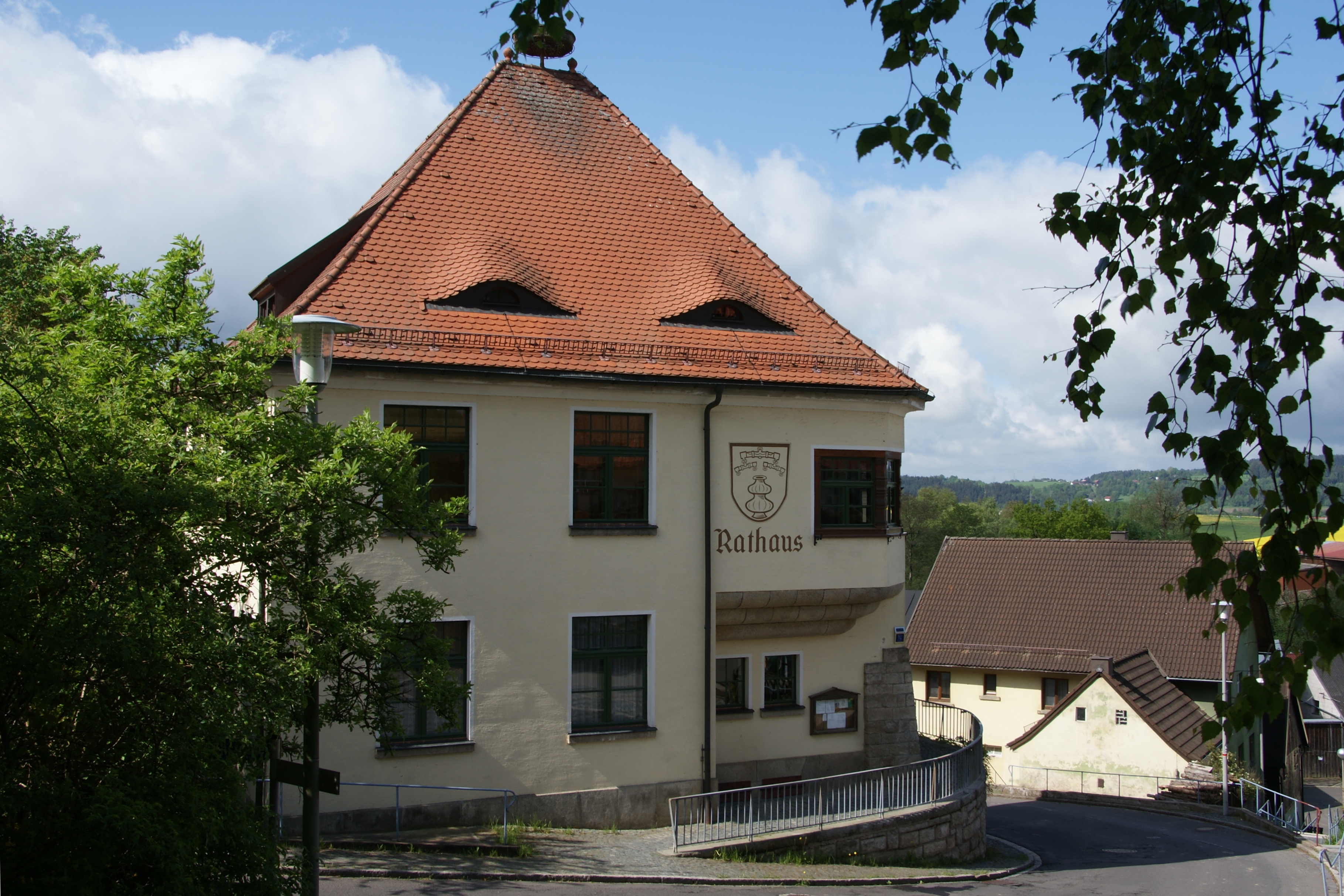 Pullenreuth, town hall and former school